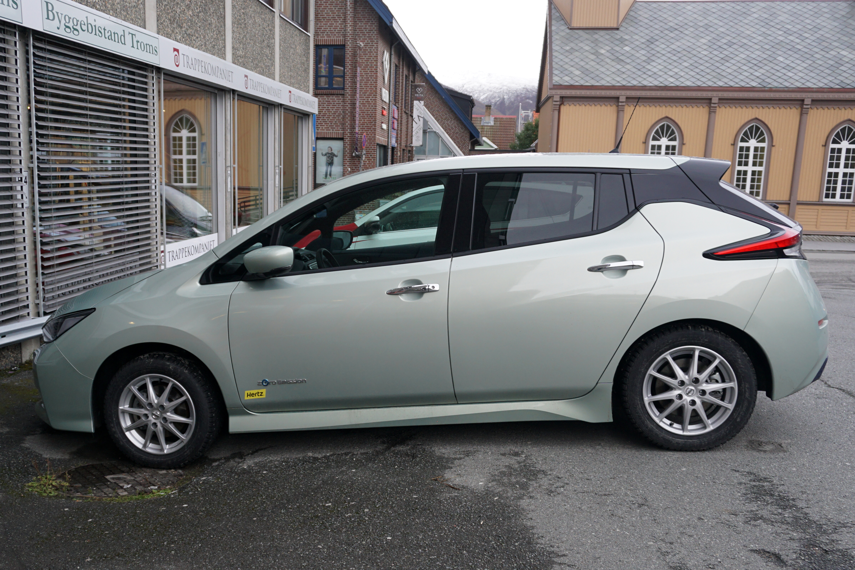 Second generation Nissan Leaf in Tromso, Norway.